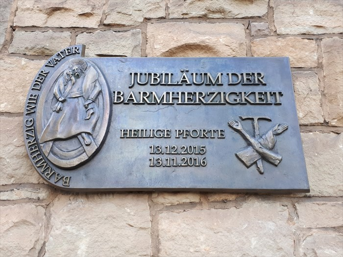 Sign on the Holy Door of the pilgrimage monastery Blieskastel